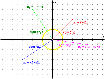 Complex Sign